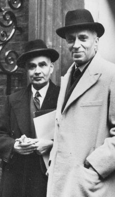 Prime Minister Jawaharlal Nehru with Girja Shankar Bajpai, the first Secretary-General of the Ministry of External Affairs, at the first meeting of Commonwealth Prime Ministers in 1948 in London.